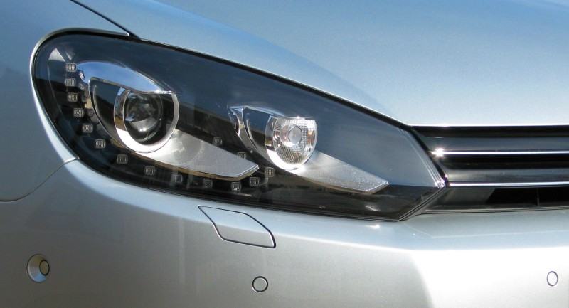 Volkswagen Golf VI, with xenon headlights, LED-daylights, and sensors of automatic parking system.